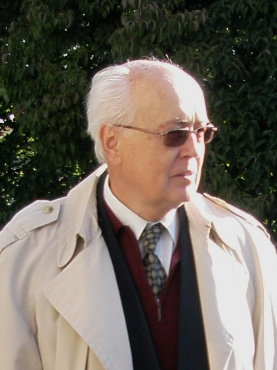 Pavel Smetana, Czech protestant theologian